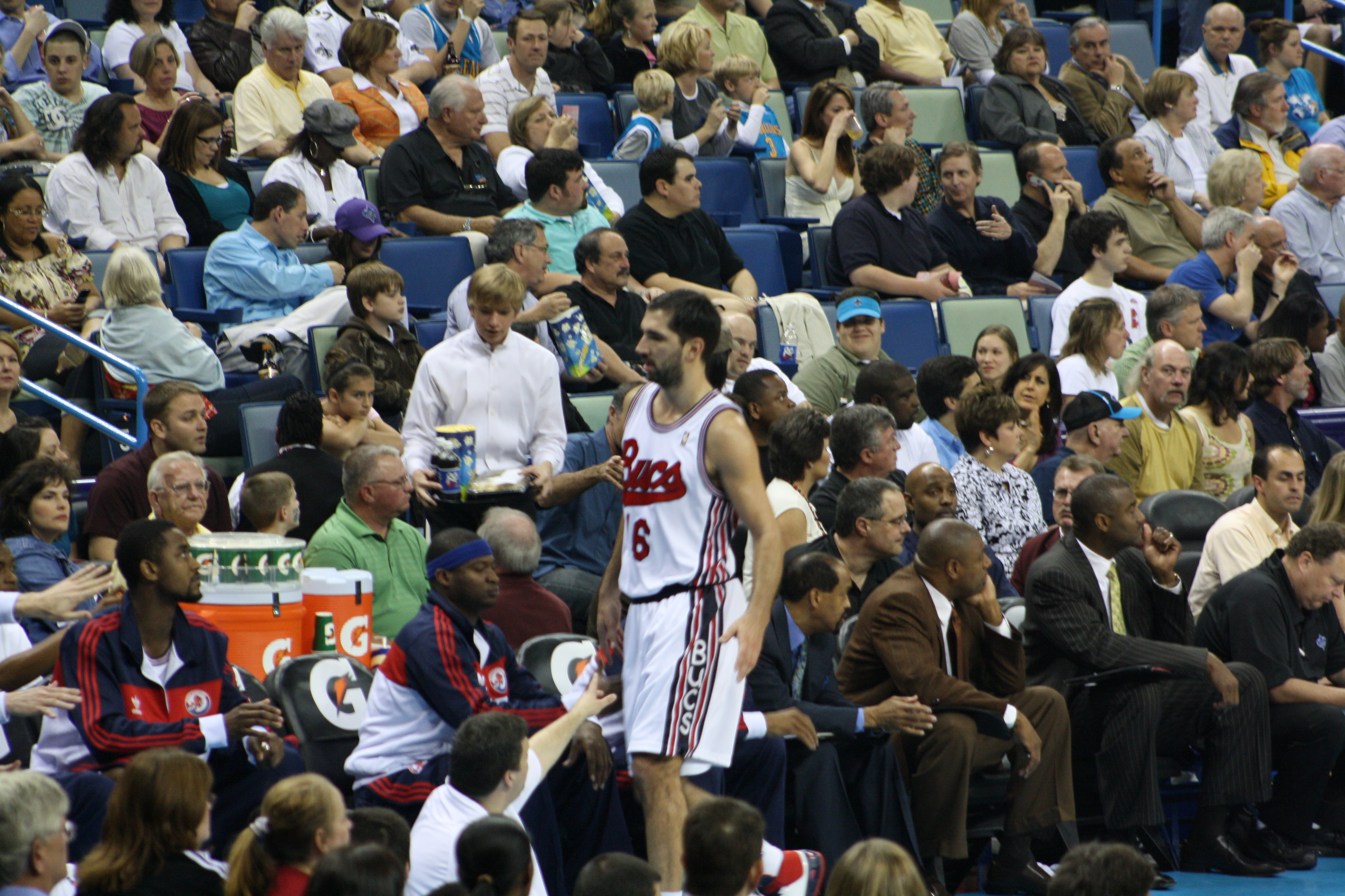 A Flickr image from the "Hornets vs. Buck with Throwback Jerseys" set.